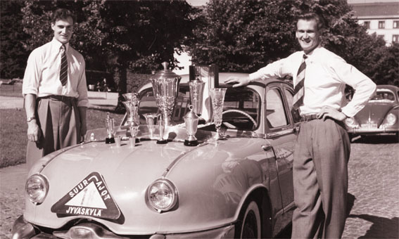 Osmo Kalpala, his co-driver Eino Kalpala and their Panhard Dyna Z after winning the 1954 1000 Lakes Rally (Rally Finland).